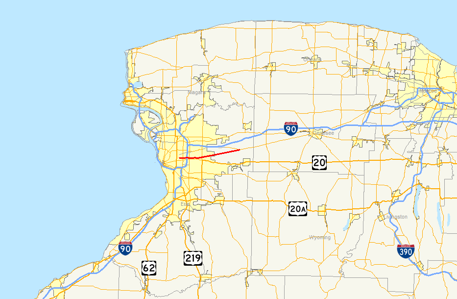 Map of New York State Route 952Q